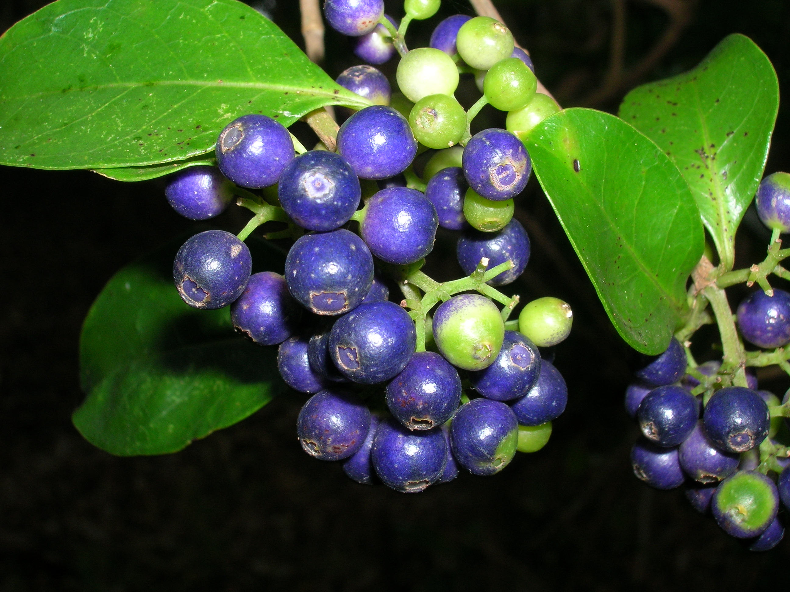 Kadua affinis (fruit). Location: Maui, Makawao Forest Reserve